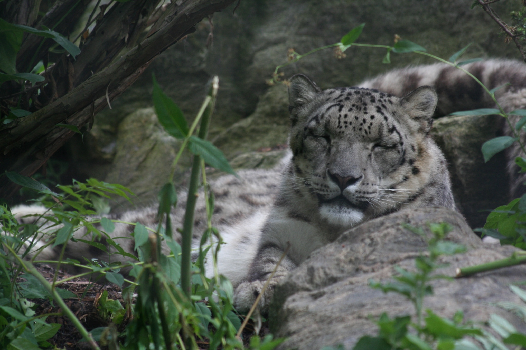 A sleeping snow leopard. Taken at the Toronto Zoo with a Canon EOS 350D & 70-300mm f4-5.6 IS USM lens. – Ber'Zophus